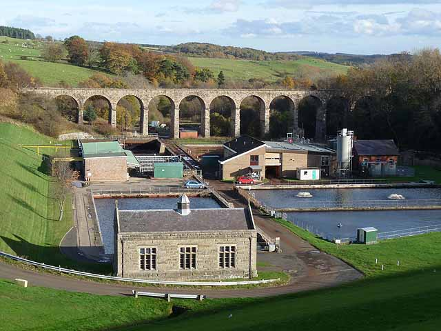 Fontburn water treatment works, Northumberland. Behind is a disused railway viaduct.